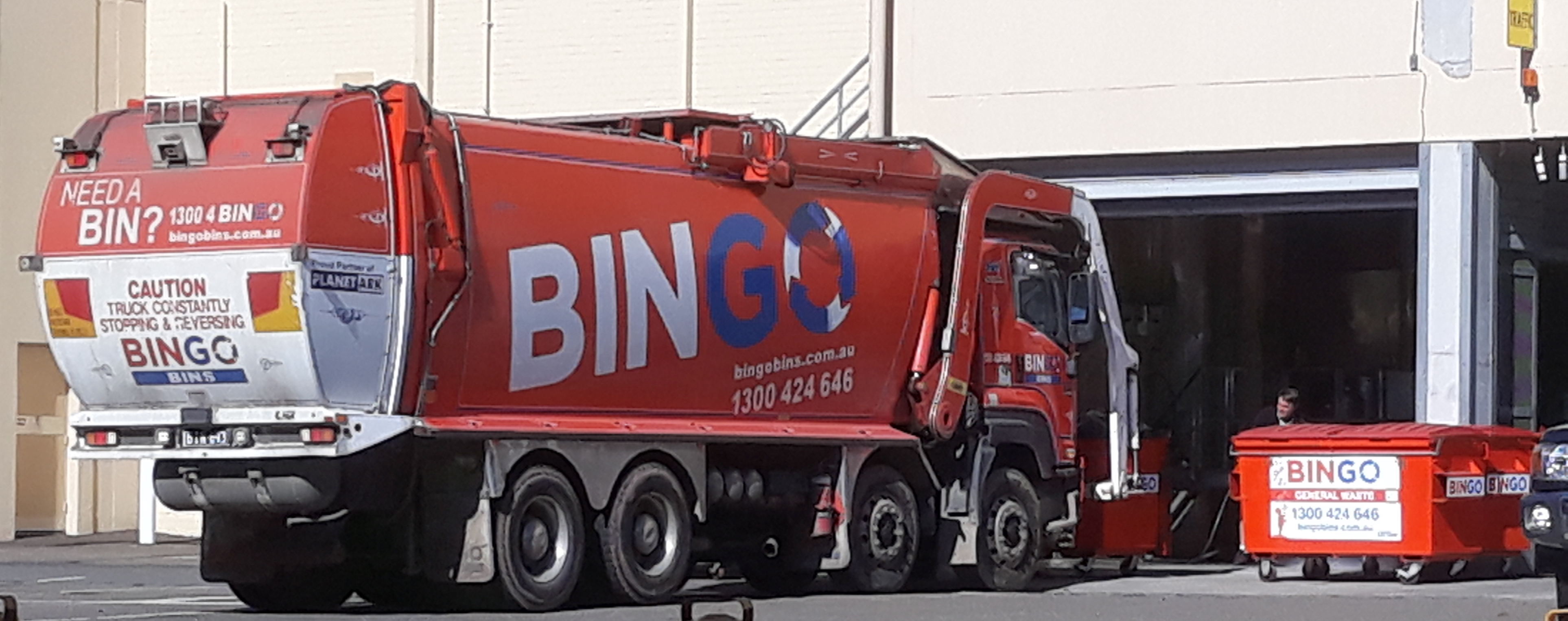 A garbage collection vehicle and skip bin belonging to Australian company Bingo Industries in Beverley Park, New South Wales, Australia.